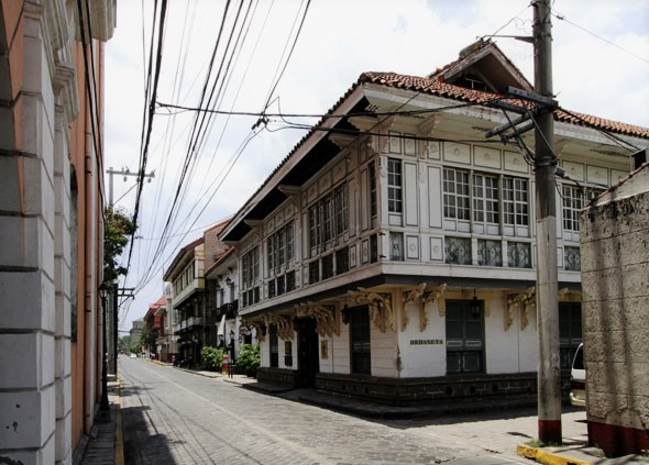 Filipino architecture